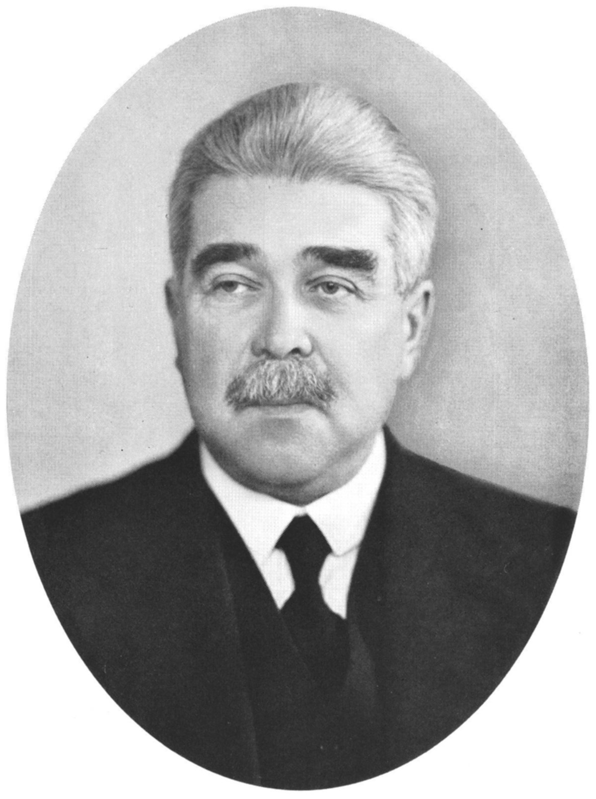 Bror Hasselrot, county governor of Örebro County, Sweden. Portrait from a 1939 catalog.